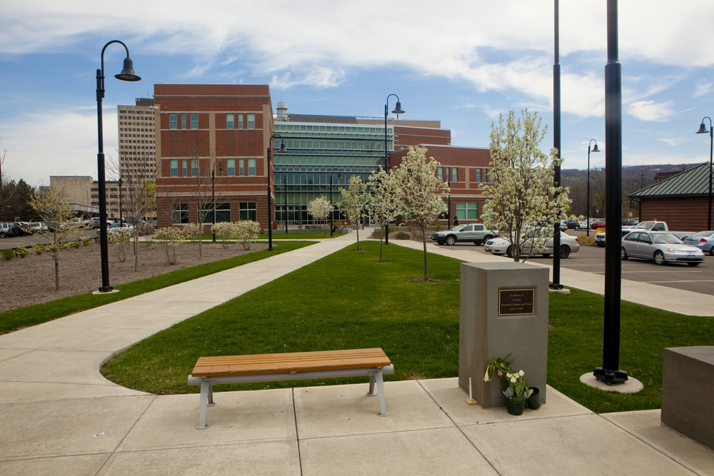 Binghamton university downtown center